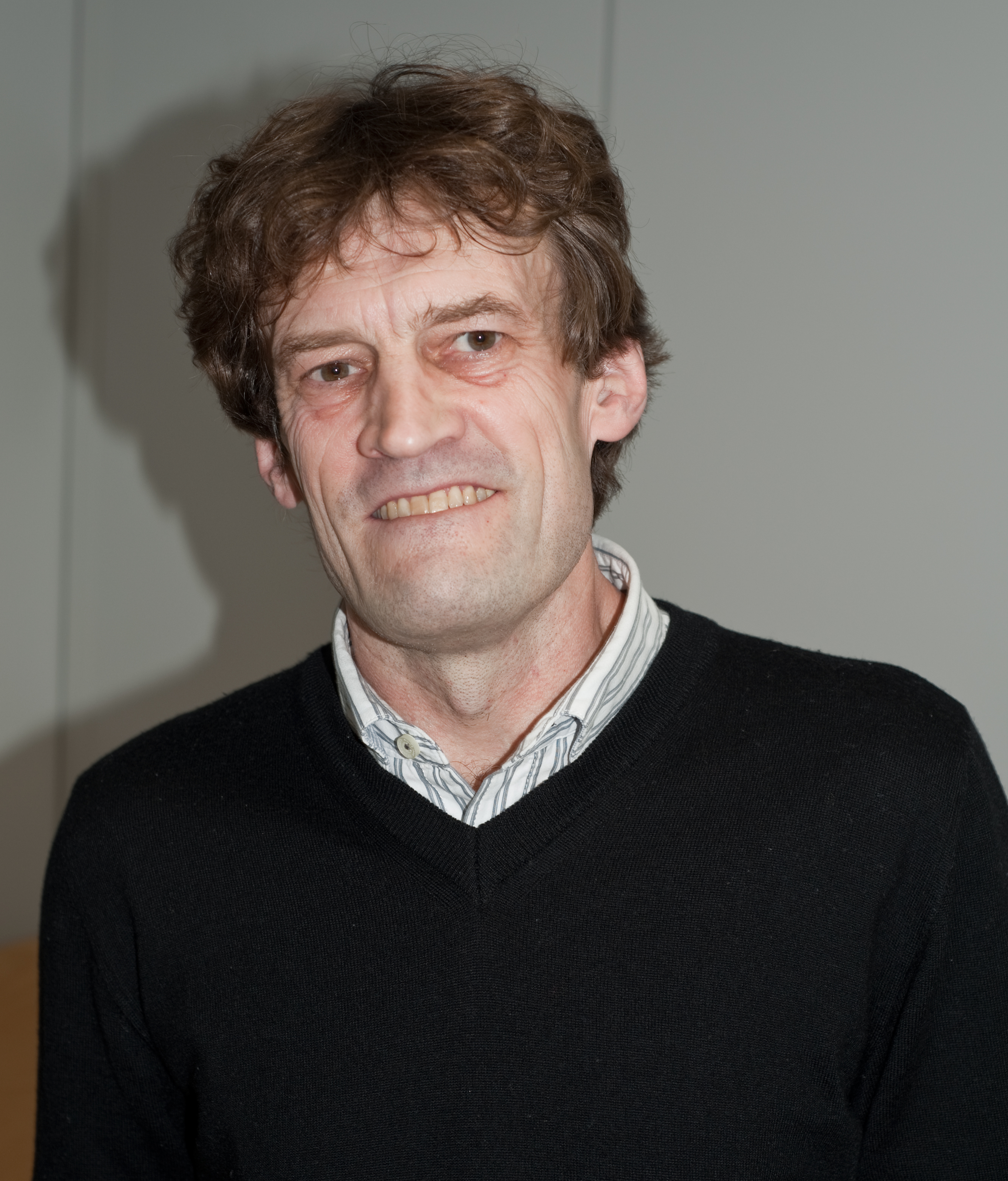 A photo of scholar John Breen taken in Tokyo at a conference